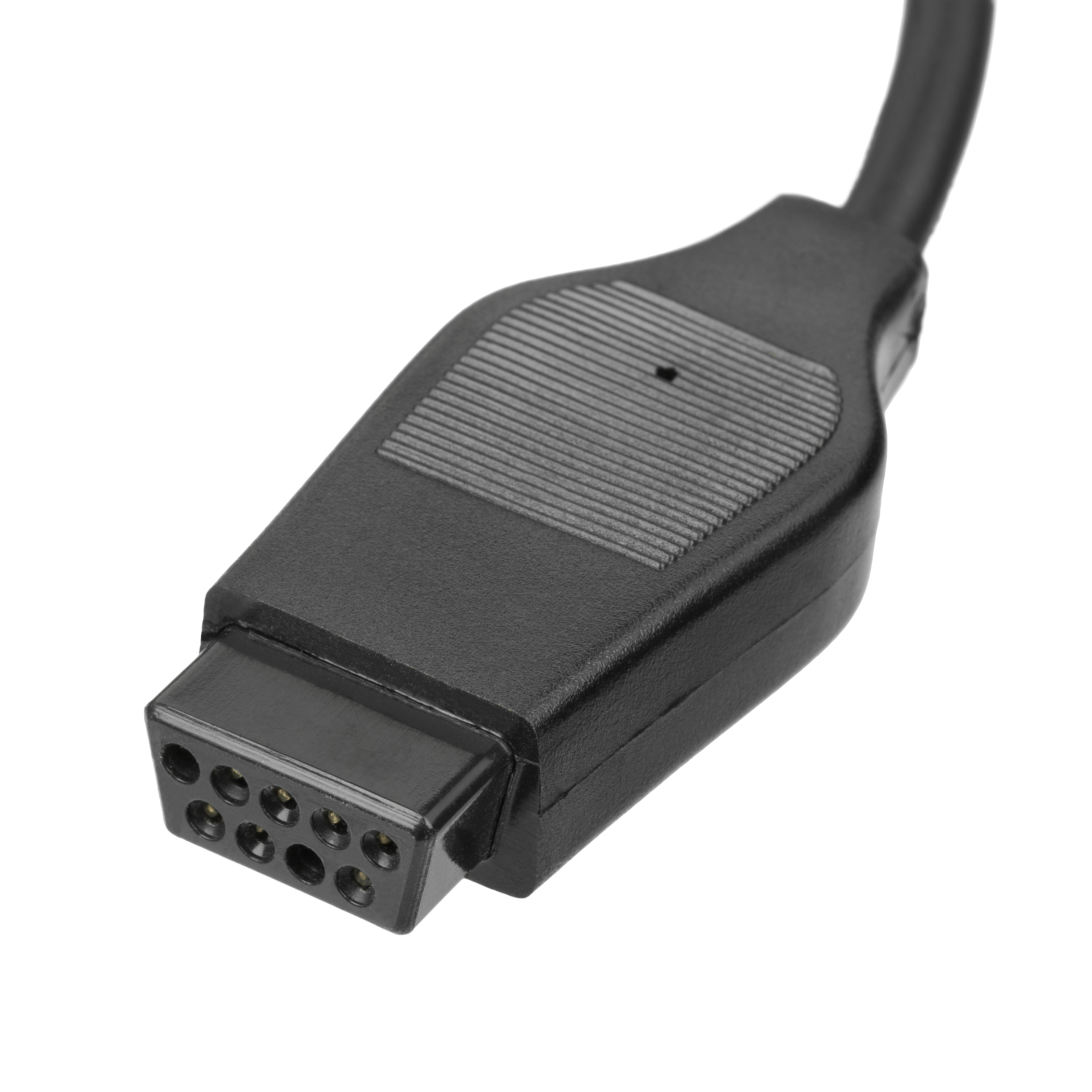 A standard DE-9, nine-pin male controller plug. Popularized by the Atari 2600 as a means of connecting controllers and peripherals, it was later adopted by many other consoles/computers in the early 1980s.